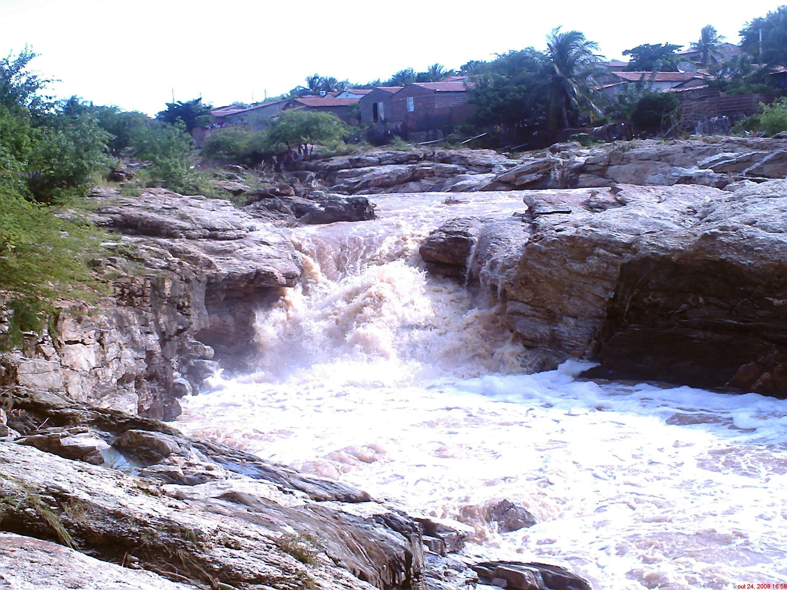 Evasion of the waters of the dam in Santa Luzia